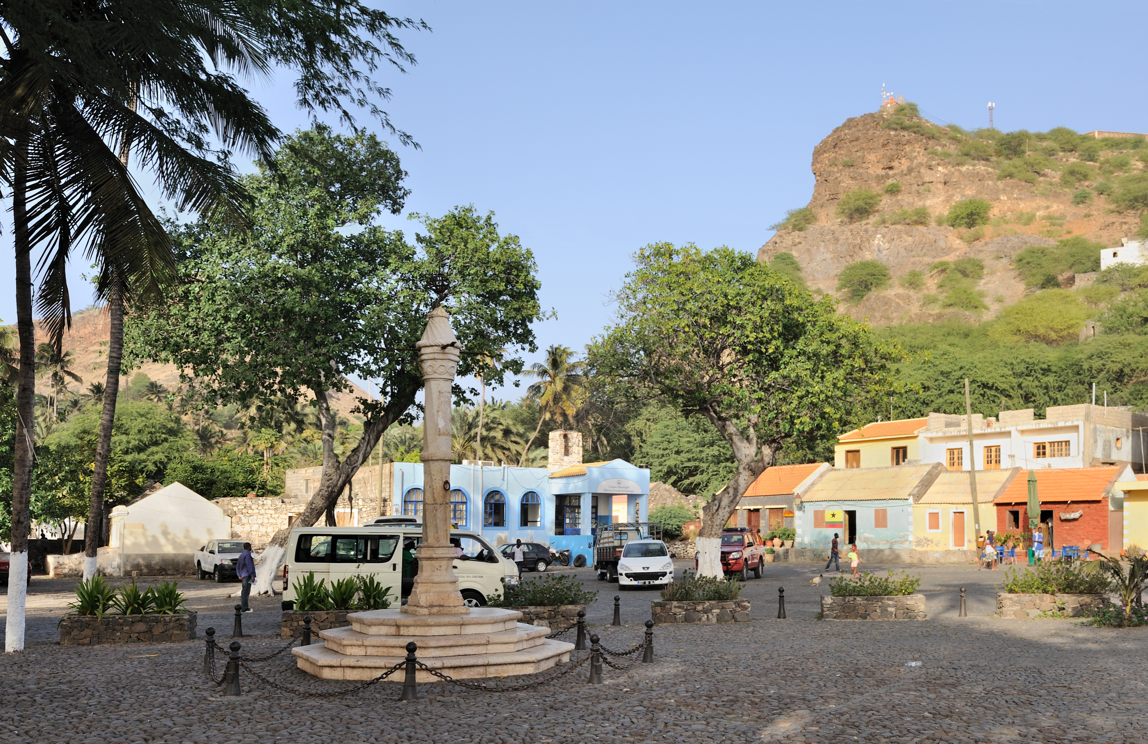 Cape Verde, isle of Santiago, Cidade Velha: square with the historical pillory (Pelourinho).